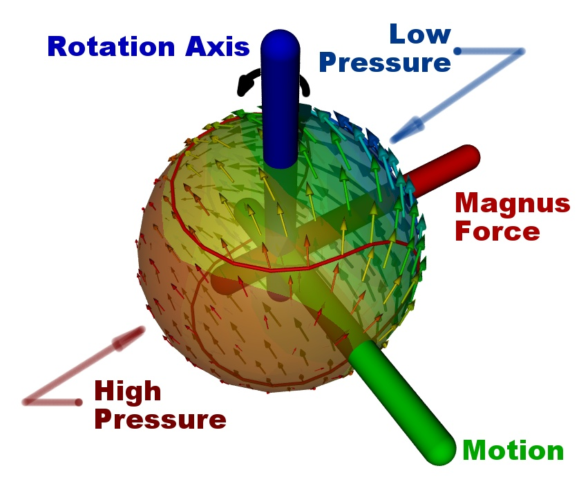 This image shows ideal-air-flow (potential flow) velocity vectors and transparent pressure-coefficient contours on a moving, rotating ball. The airflow simulation was performed in SymLab using the Professional add-on. It was rendered in POV-Ray and annotated in GIMP.